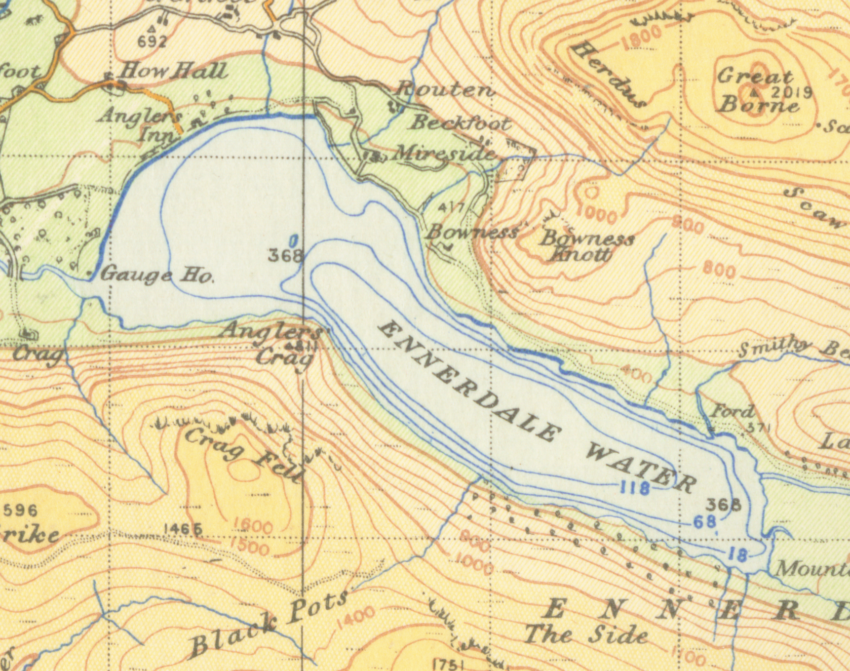 Map of Ennerdale Water from 1948 scale 1 inch to the mile scanned at 600DPI